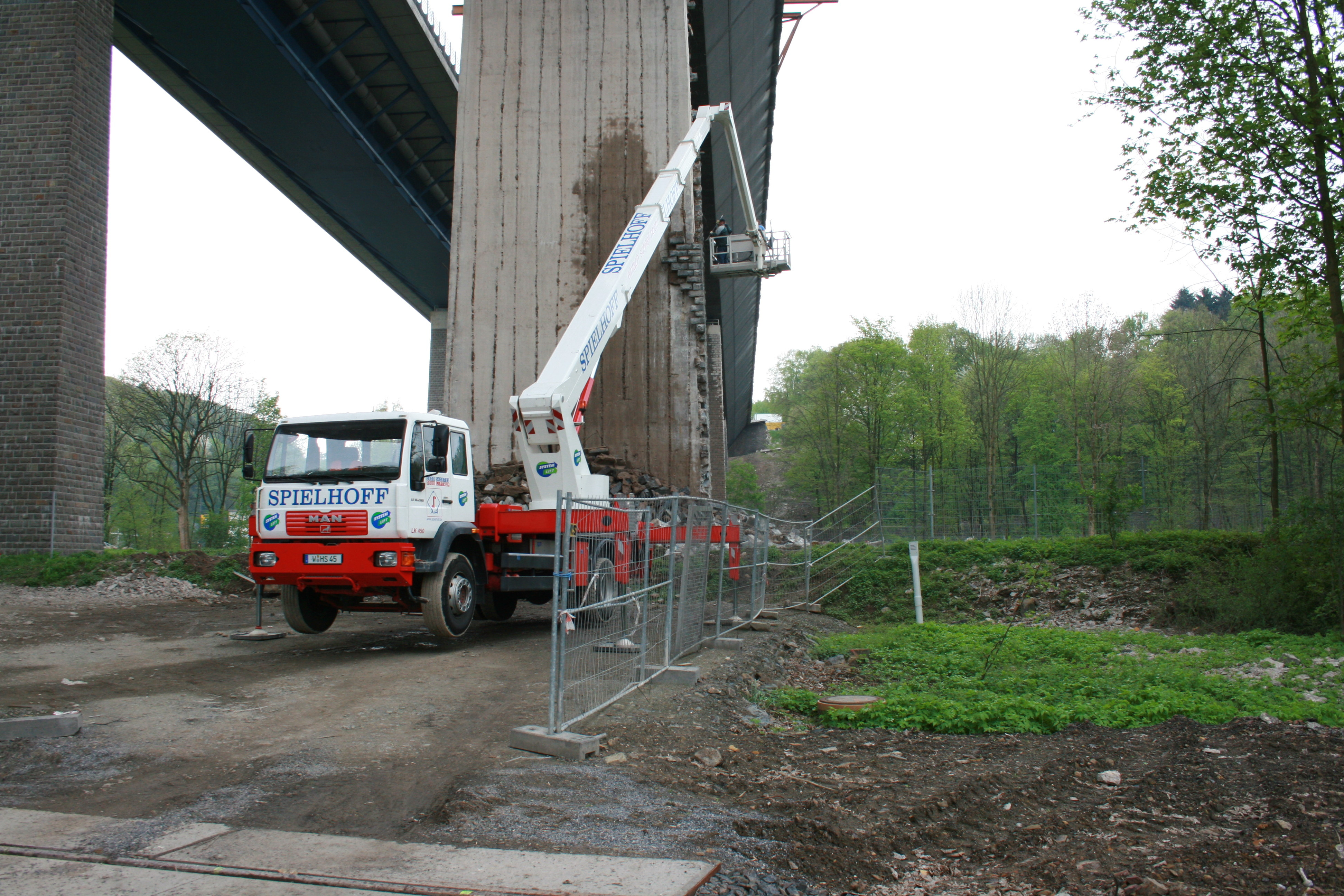 Disassembling of the northern bridge part, with Wumag WT 450. MAN LE 18.280 truck.